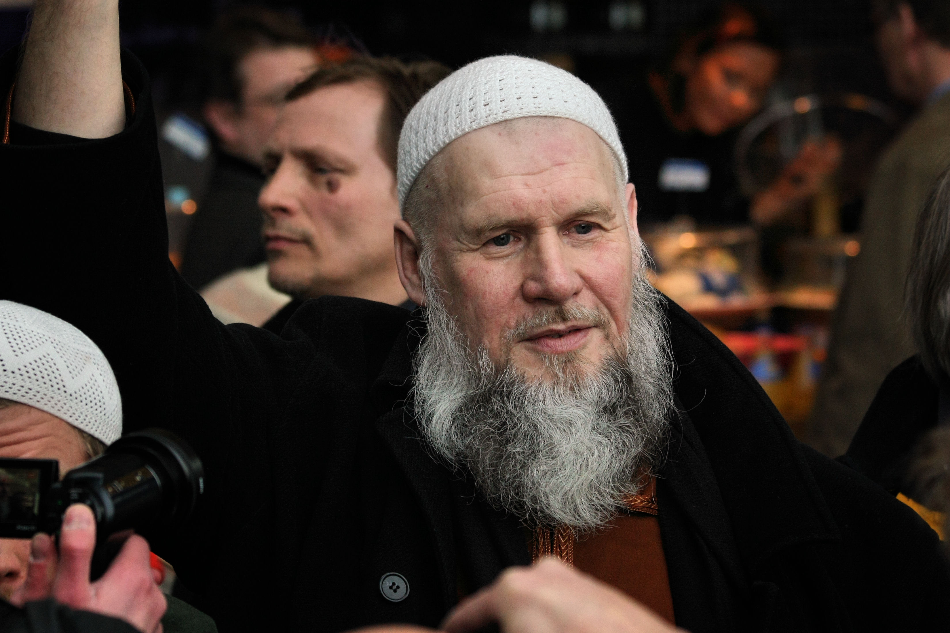 Abdullah Tammi at a Nashi demonstration in Sanomatalo, Helsinki.